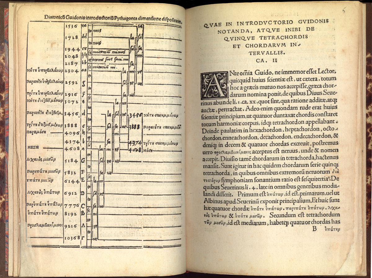 Spread from the "Isagoge in Musicen" ("Introduction in Music") printed by Johann Froben in 1515.